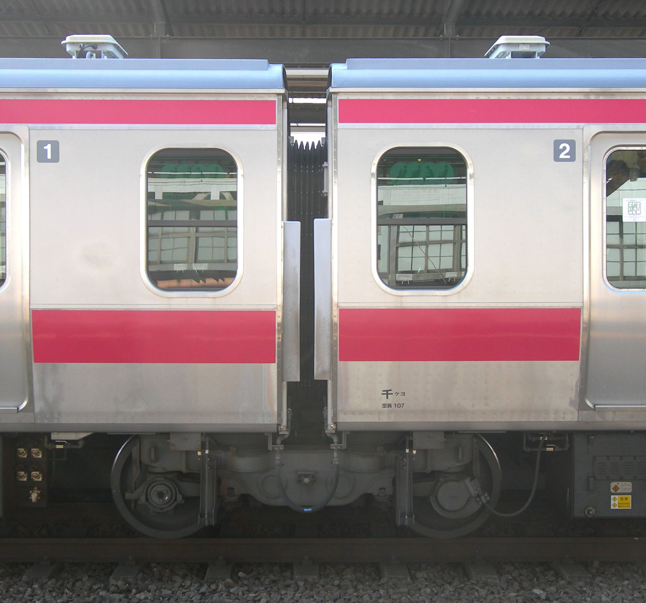 A TR258 non-motored Jacobs bogie between articulated cars (cars 1 and 2) of JR East E331 series EMU set AK1 on the Keiyo Line at Shin-Urayasu Station